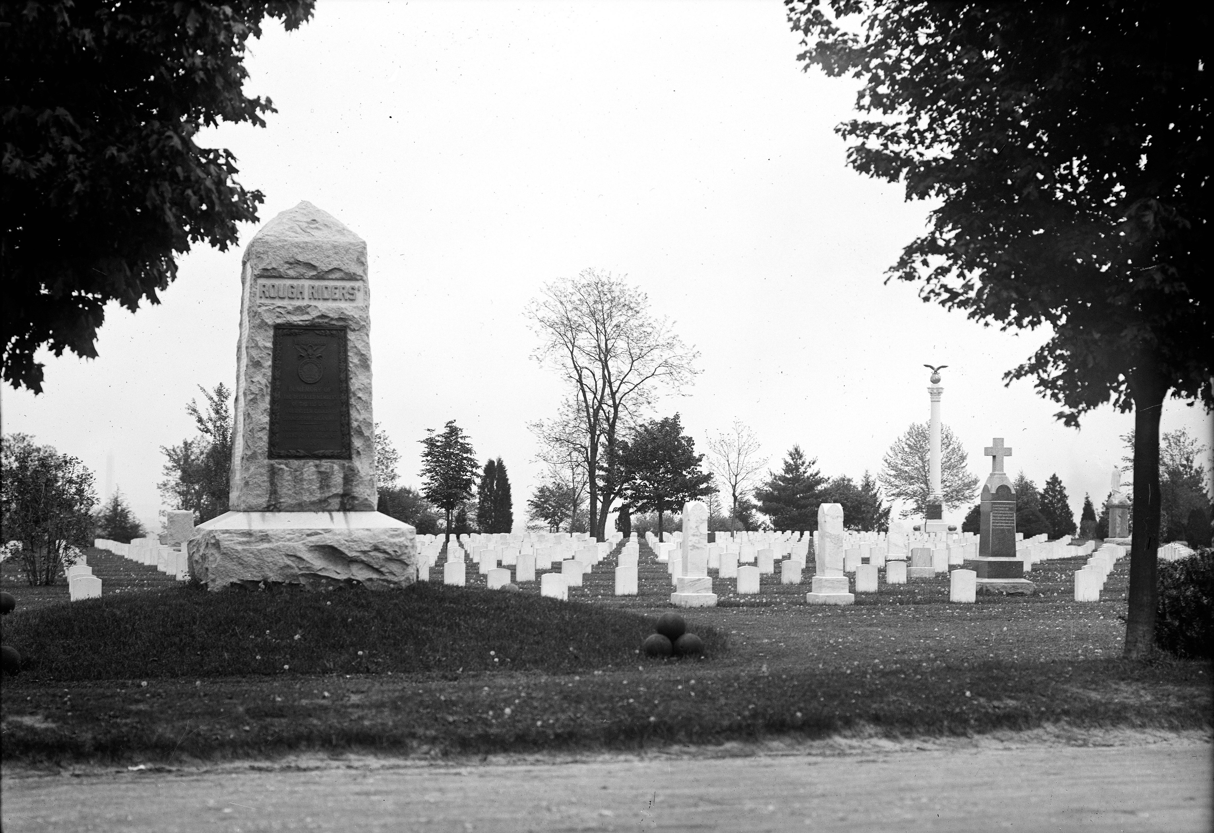 Looking east at the front face of the Rough Riders Memorial in in Arlington National Cemetery in Arlington County, Virginia, in the United States. Image was taken in 1912. The Spanish-American War Memorial (tall shaft with eagle on top) can be seen in the background. The Rough Riders was the informal name for the 1st U.S. Volunteer Cavalry, a unit of the U.S. Army organized by Colonel Leonard Wood and a civilian, the former Assistant Secretary of the Navy Theodore Roosevelt. The Rough Riders fought in Cuba in several battles, but their most famous encounter was the charge up San Juan Hill east of Santiago de Cuba on July 1, 1898. The monument was erected in 1906 to commemorate those in the regiment who died during the war.